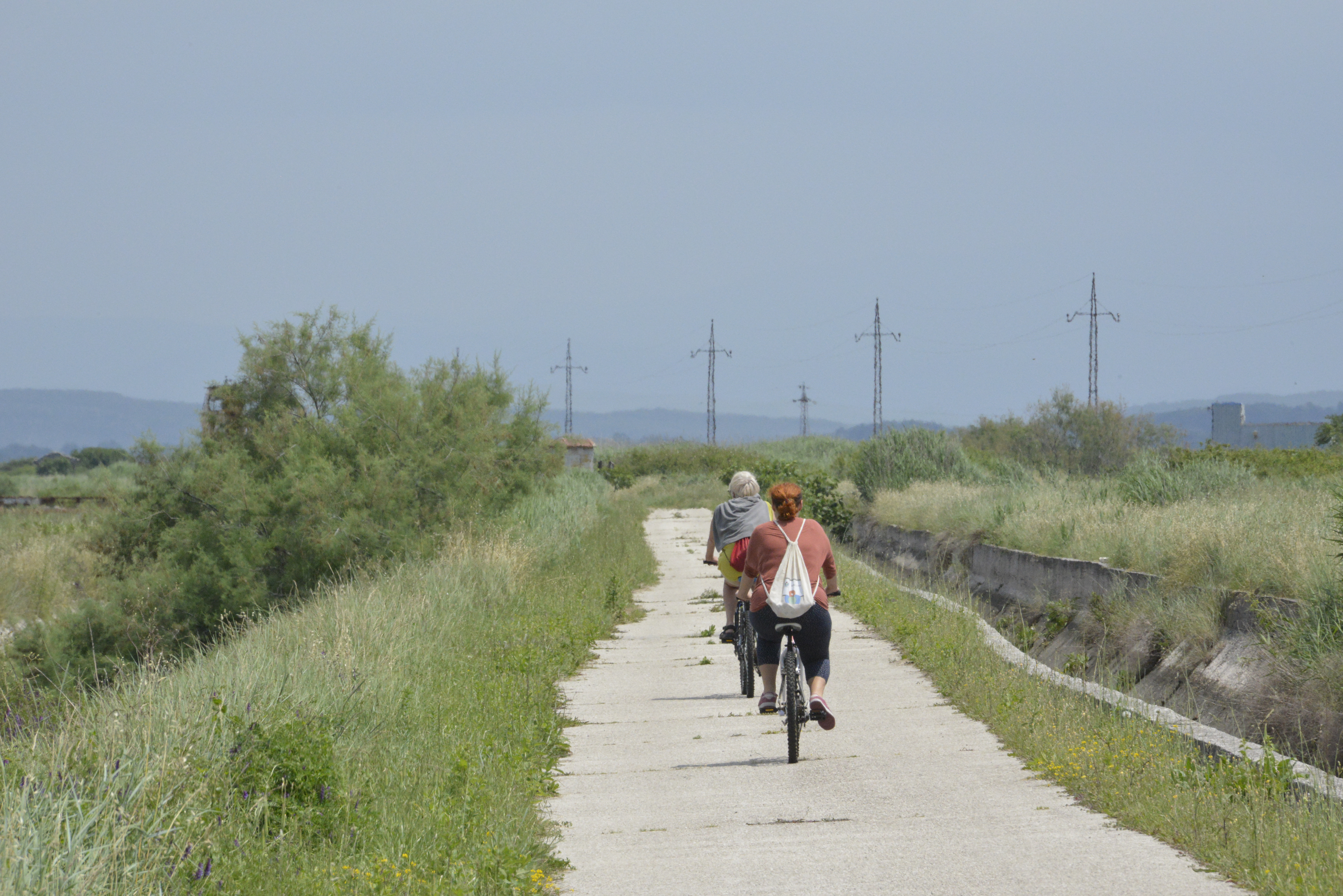 Ulcinj Salinas, summer 2019